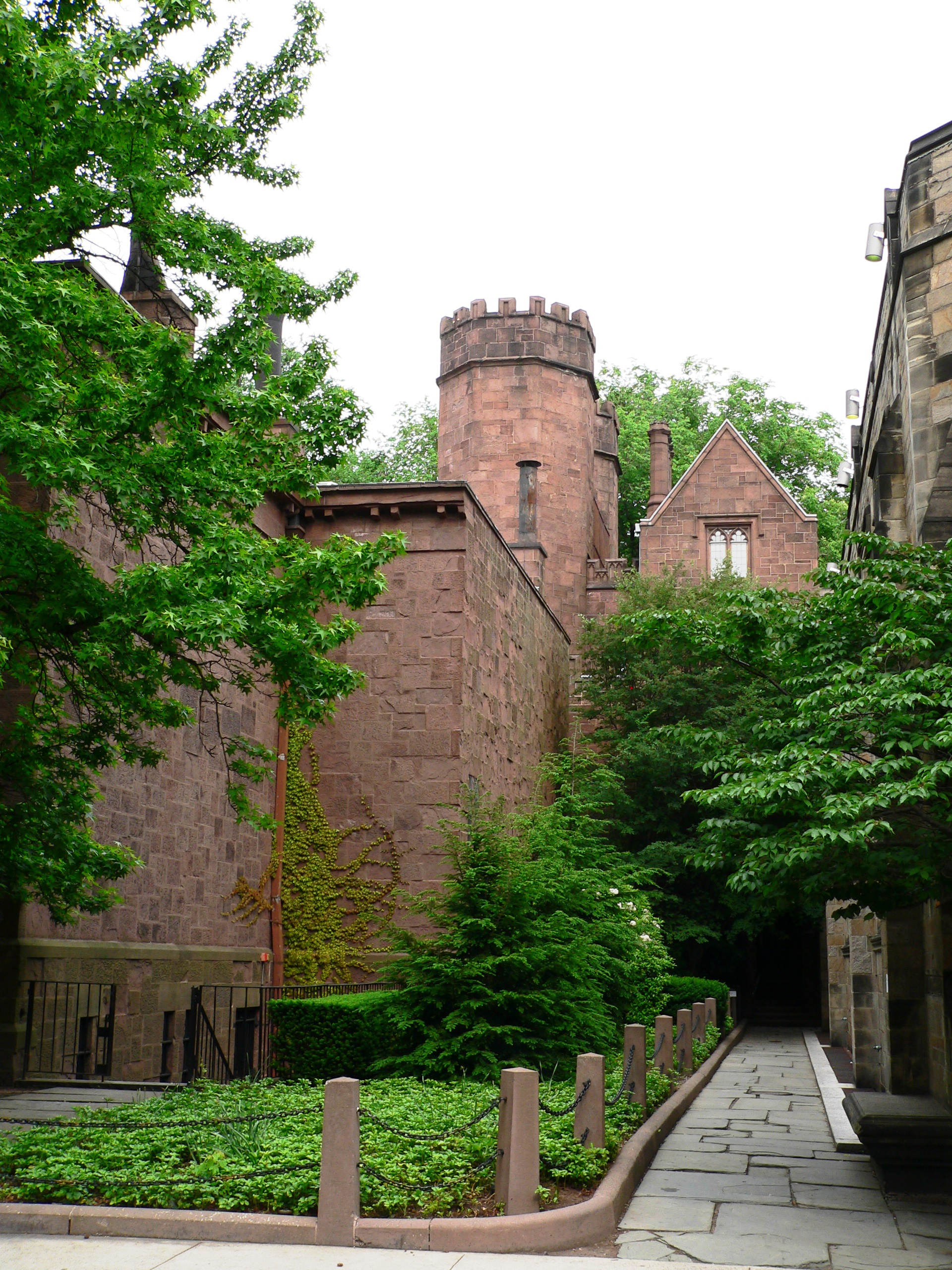 I took a picture of the historic Skull & Bones tomb at Yale in June 2007. This shot shows the towers to the right rear side of the structure.